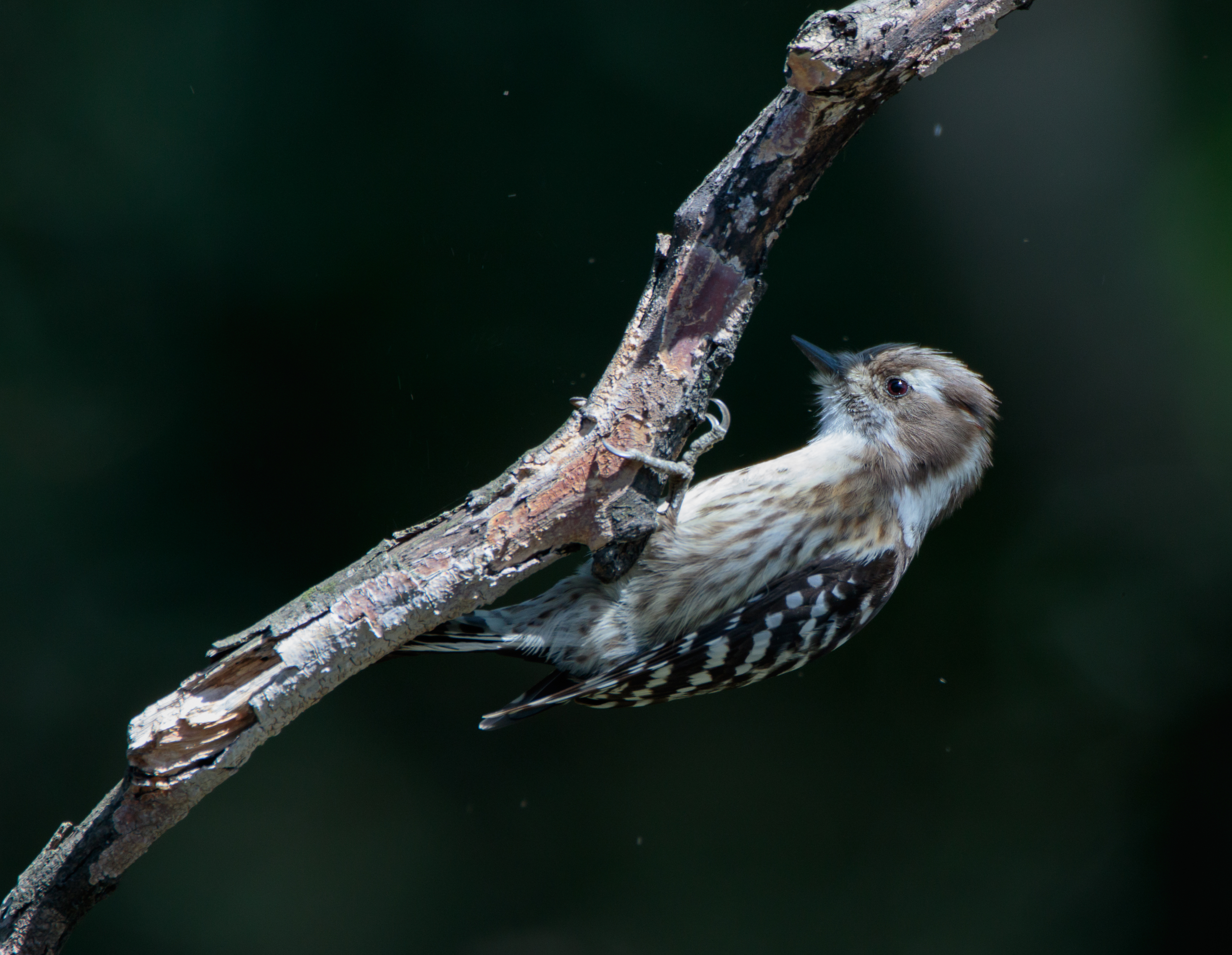 Japanese pygmy woodpecker in Osaka.